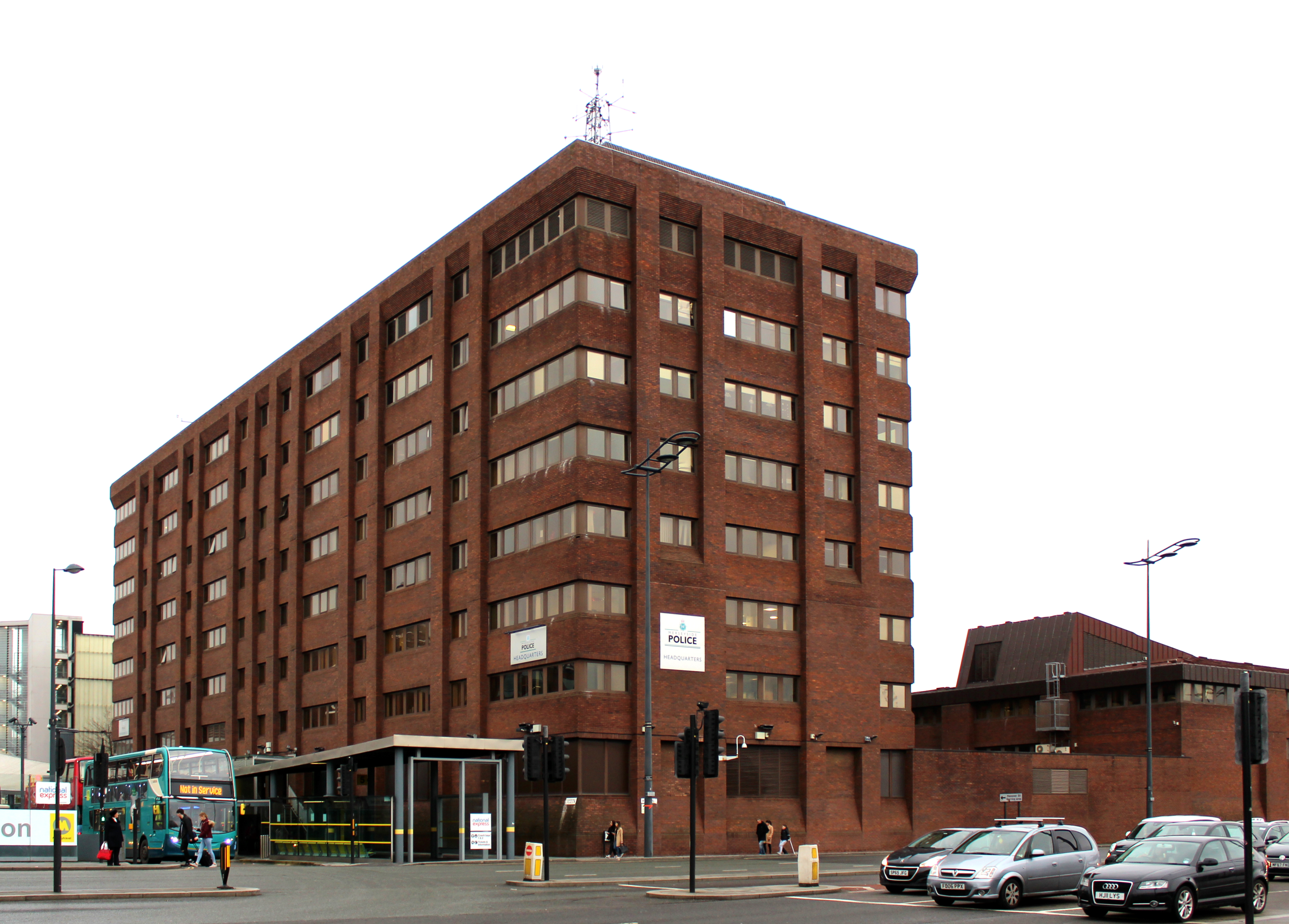 From across Strand Street with Liverpool One bus station to the left.